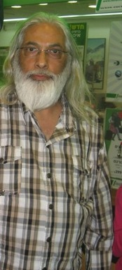 Goel Ratson in Dizengoff Center